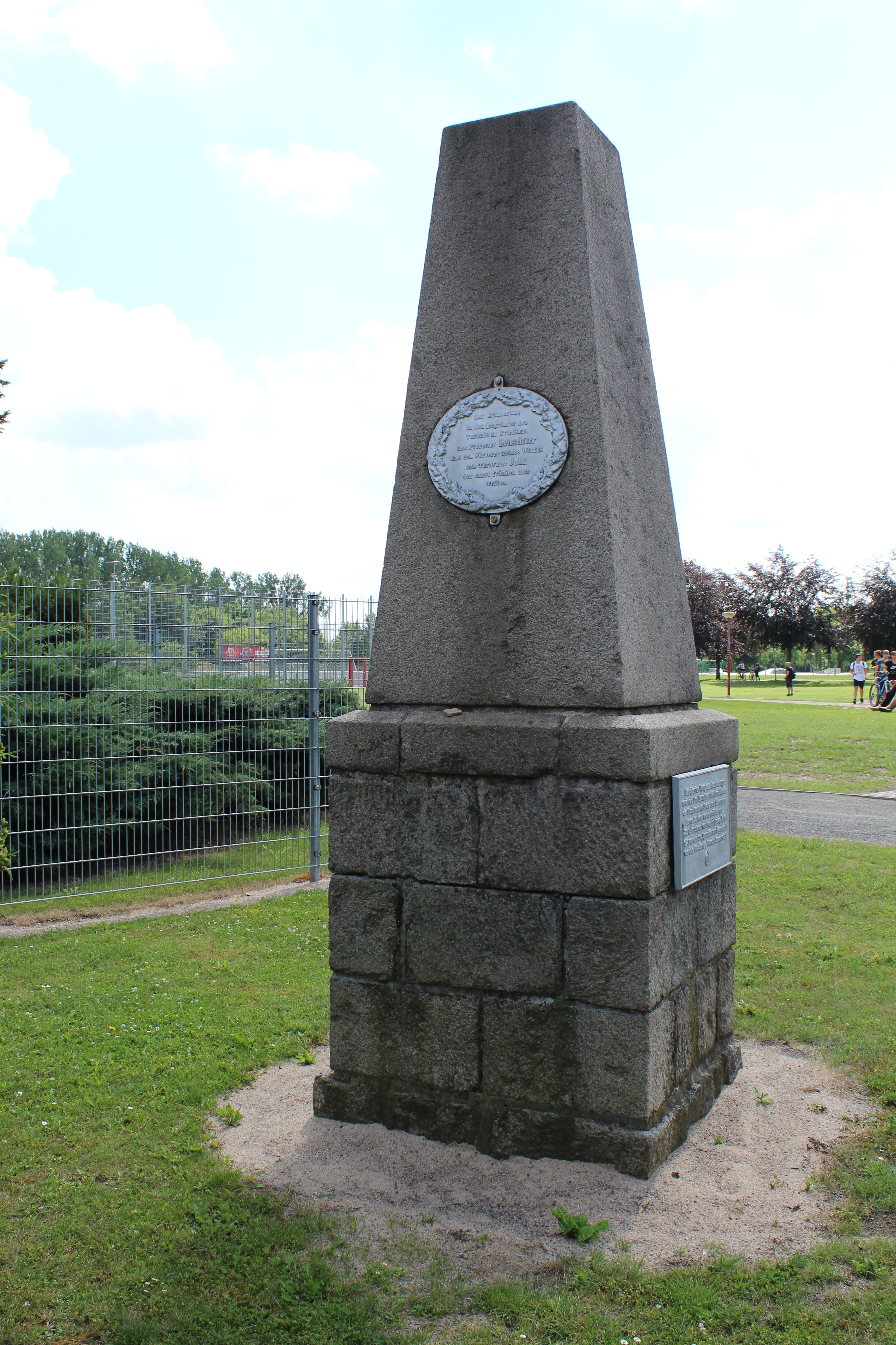 memorial to Friedrich Ludwig Jahn and Carl Leuschner in Friedland (Mecklenburg), erected in 1878